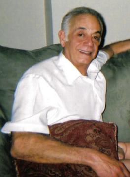 This is Jimmy Chagra in 2005 at my house after having been released from prison. PoliticalMerc took the photo and I like it though Jimmy felt at the time it made him look old.